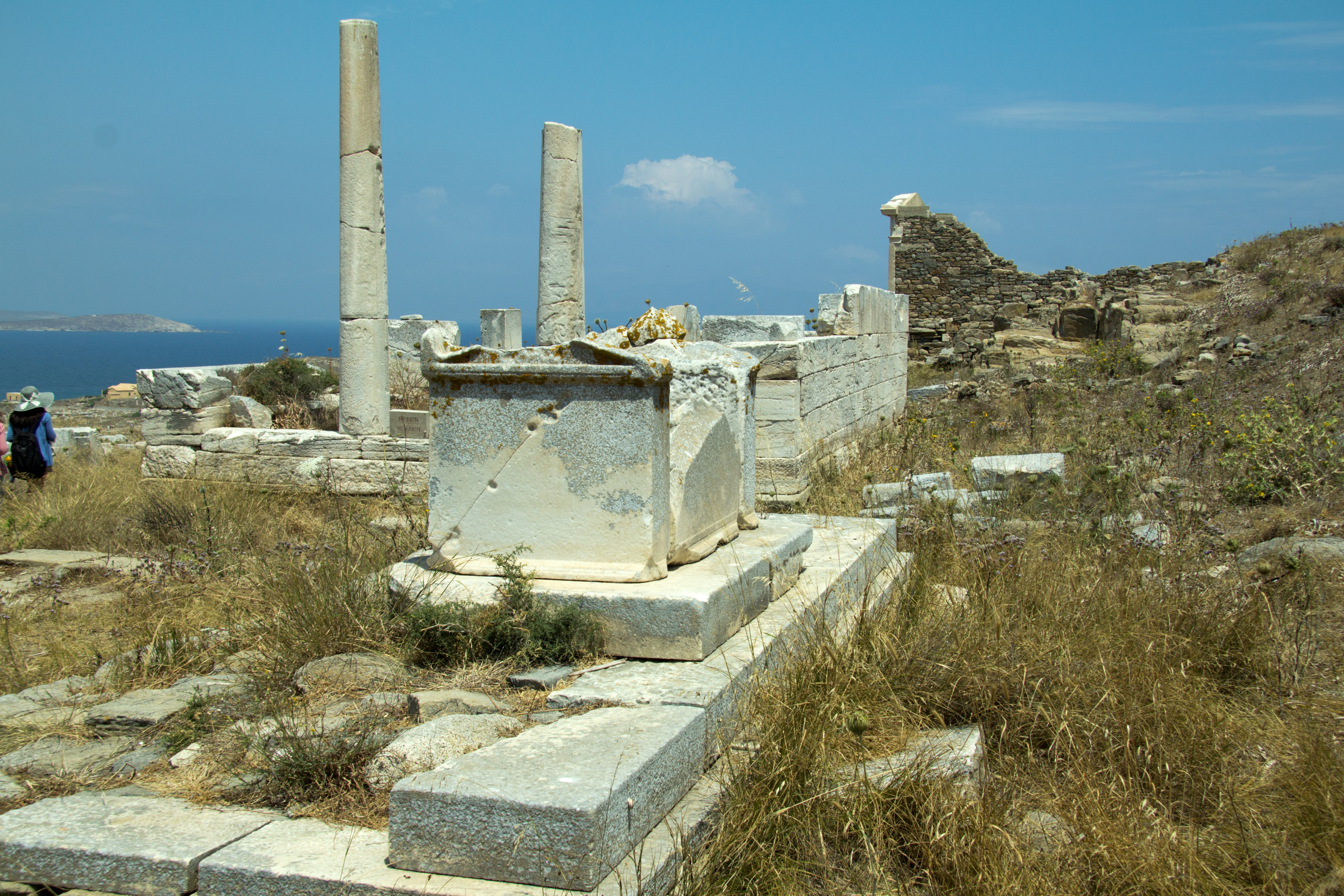 Late Archaic temple of Hera, circa 500 BC, on older foundations. Delos. In the foreground of the altar, in the background on the right is the later temple of Isis.